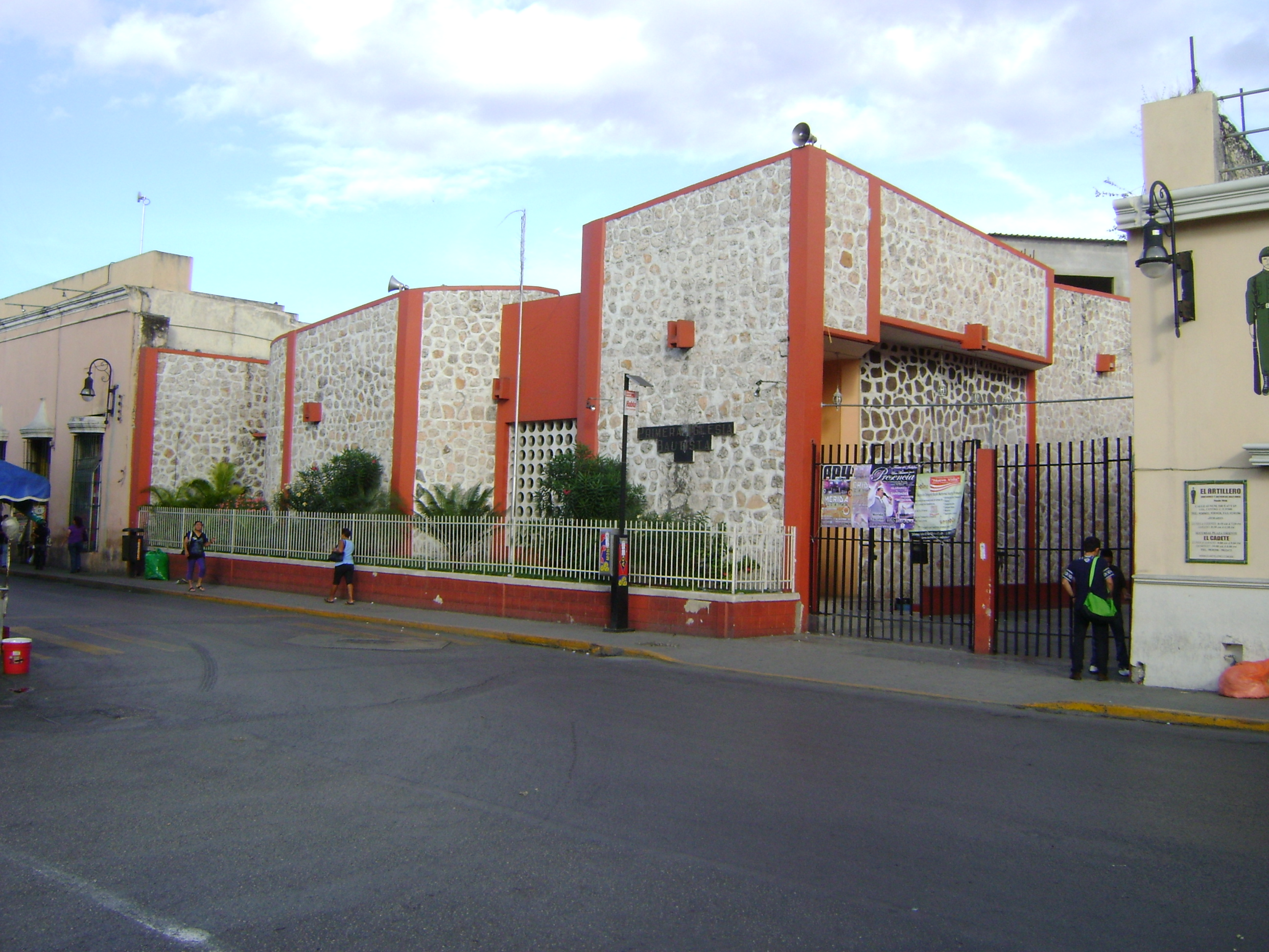 First Baptist Church in Merida, Yucatan.